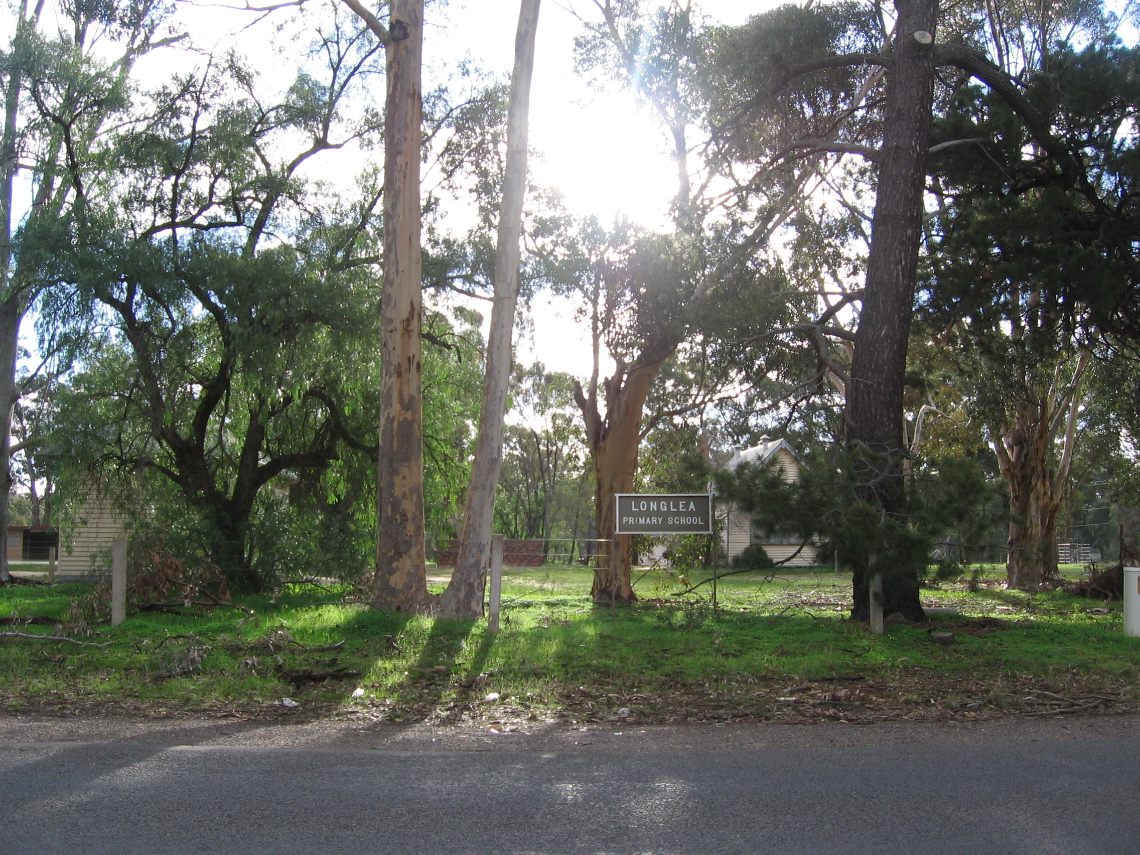 Site of the former primary school at Longlea, Victoria, now abandoned